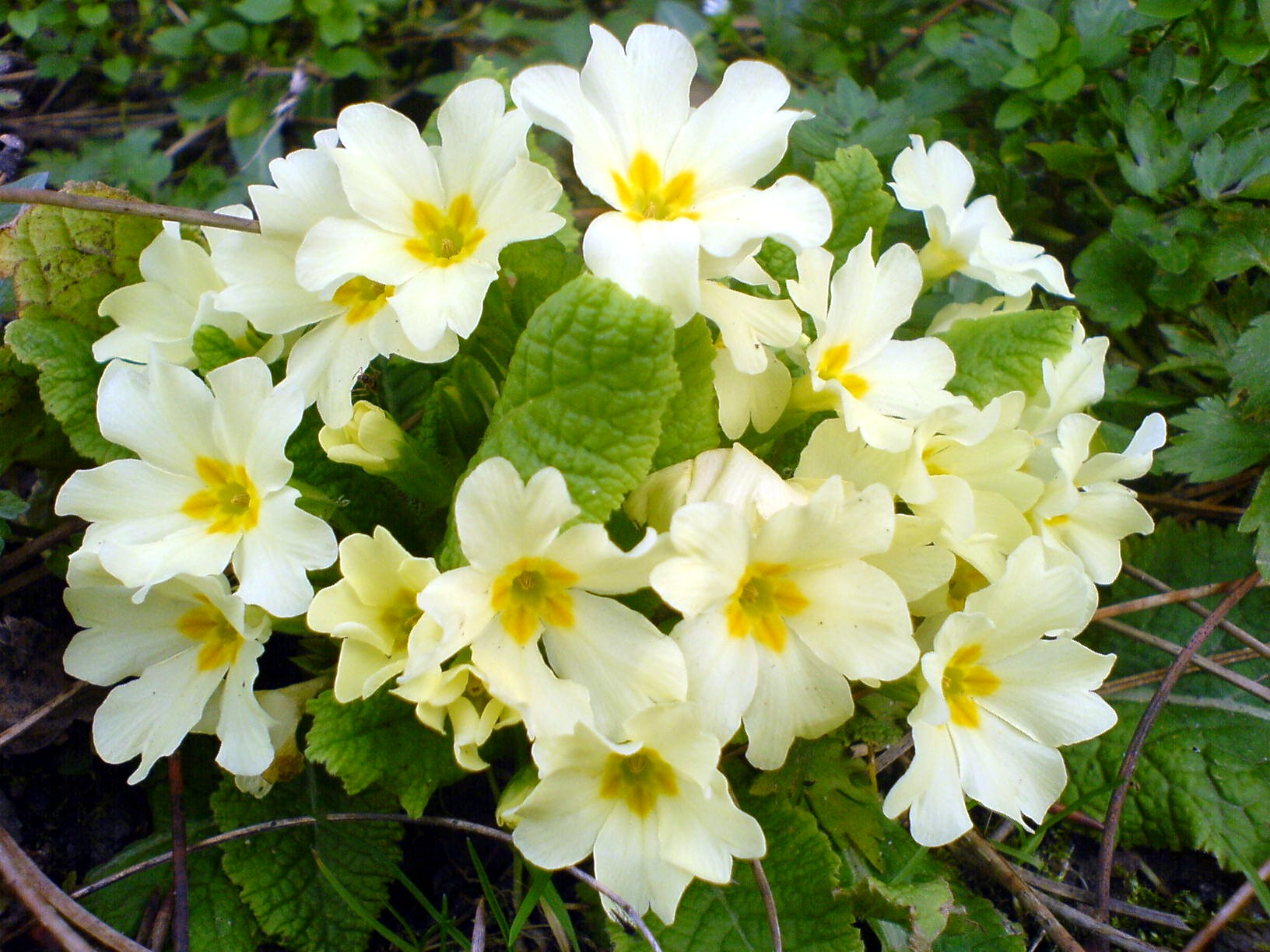 Edited by Wj32.